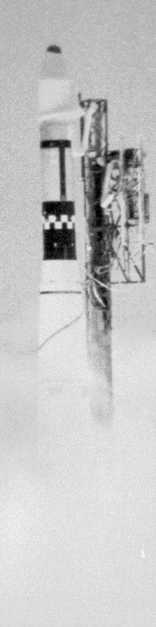 Launch of Thor SLV-2A Agena D rocket with Corona 91 satellite.